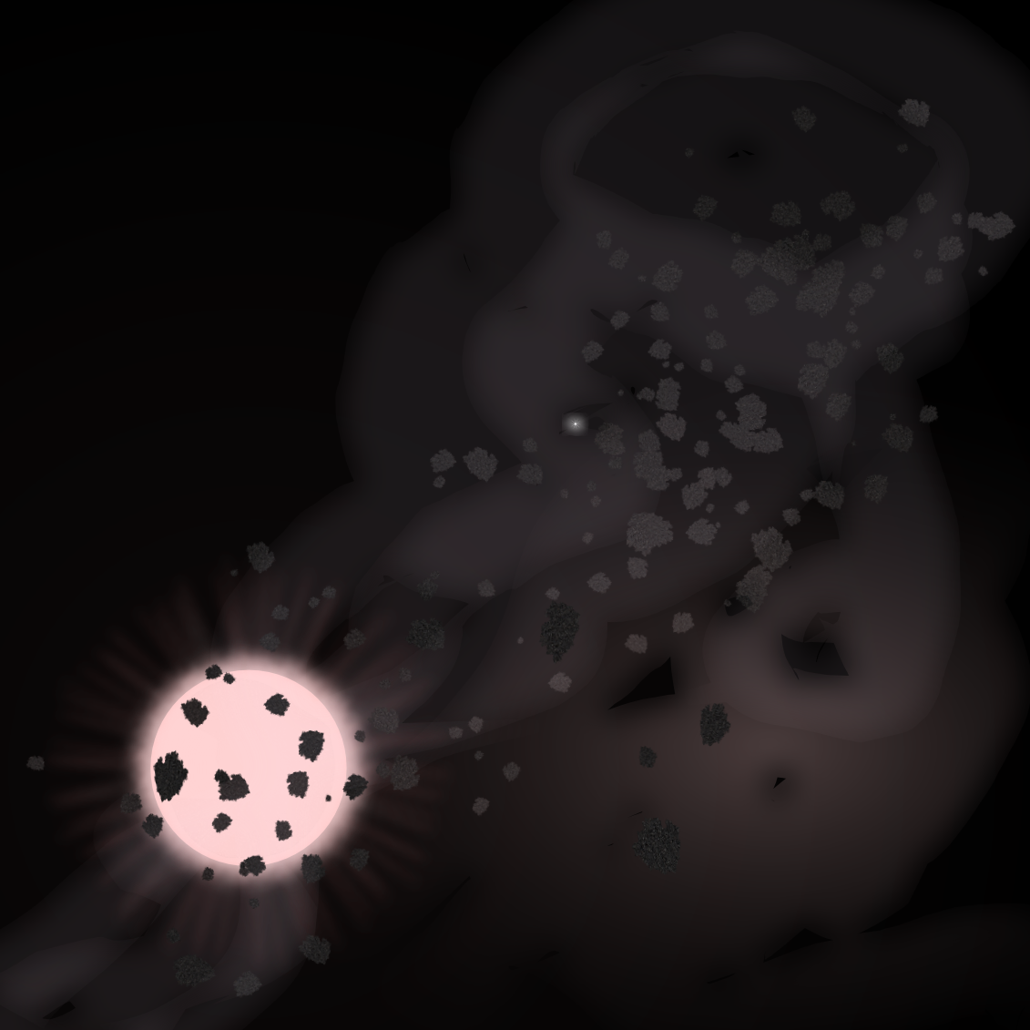 Nemesis, a hypothetical dim red dwarf star and our much brighter, but more distant Sun.